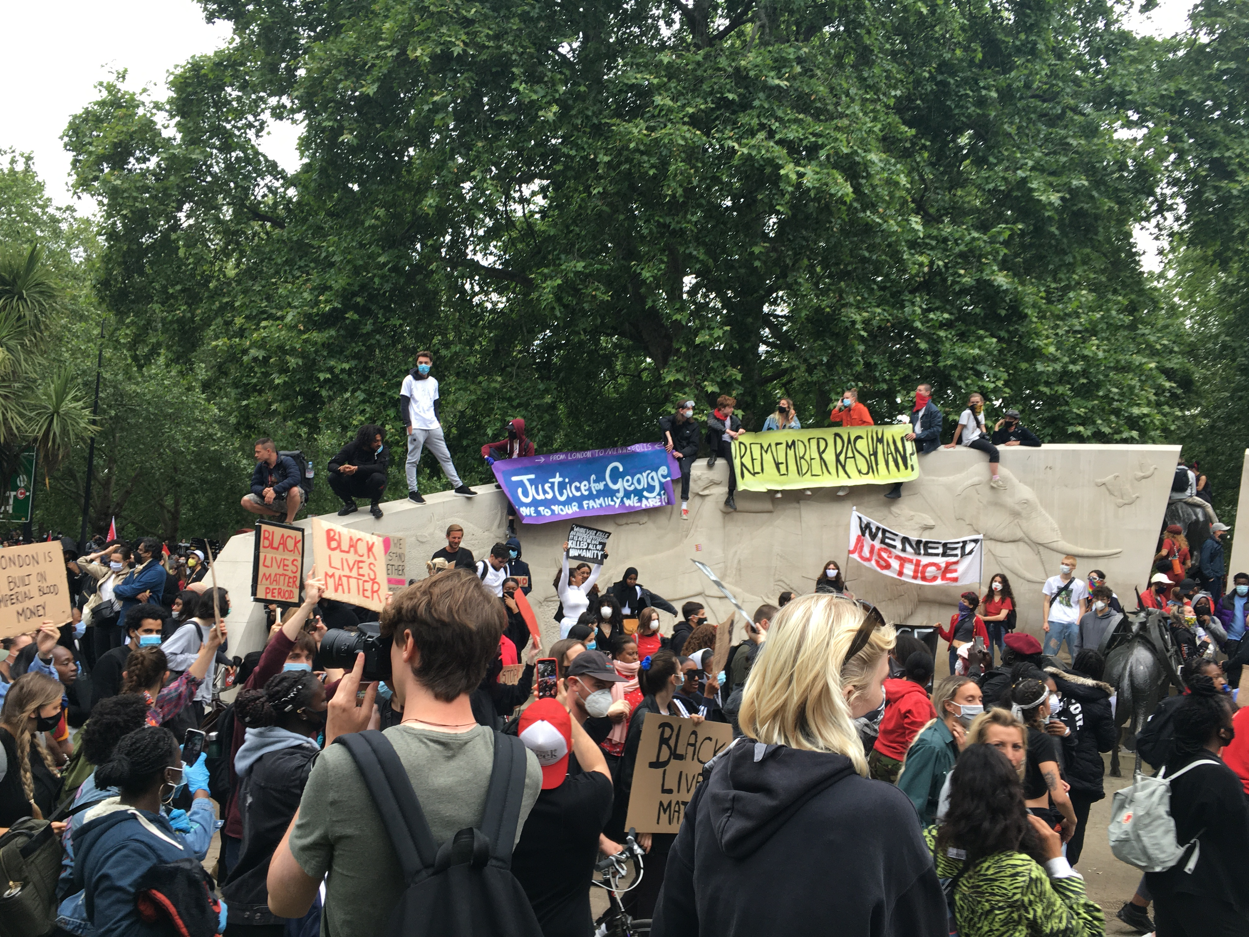 The London Black Lives Matter peaceful protest starting in Hyde Park on 3.6.20, in support of the USA's protests for BLM, sparked by the death of George Floyd, and to fight for the eradication of racism in UK police and society.